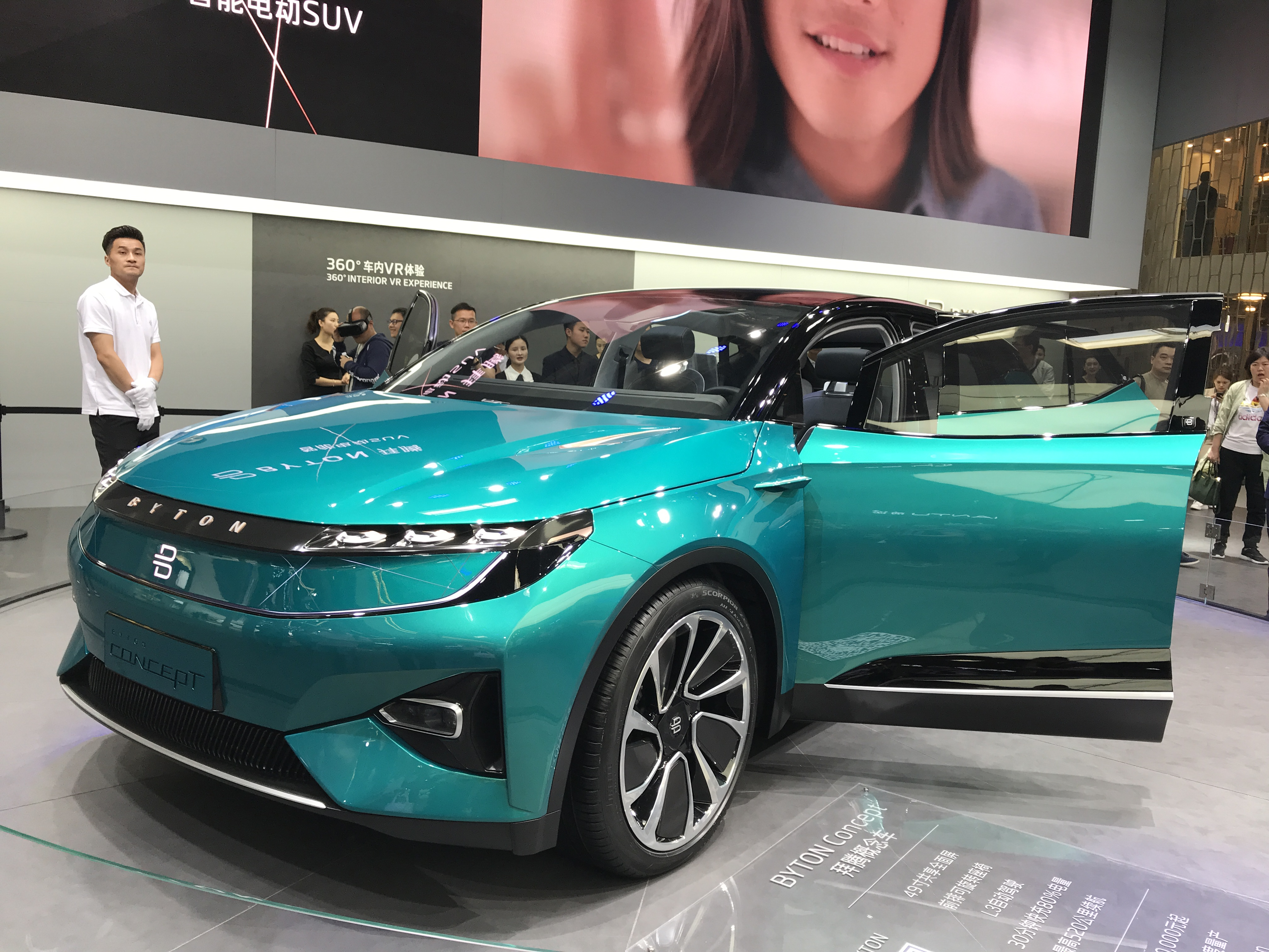 Byton "M-Byte" (formerly "Concept")